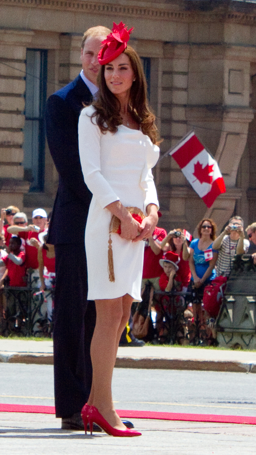 Prince William, Duke of Cambridge and Catherine, Duchess of Cambridge, on their first royal tour as a married couple, visiting Ottawa for Canada Day celebrations. According to the International Business Times, Catherine is wearing "a cream-ruffled Reiss dress, a red Sylvia Fletcher fascinator and a red clutch ... with a diamond brooch that belongs to the Queen's personal collection".